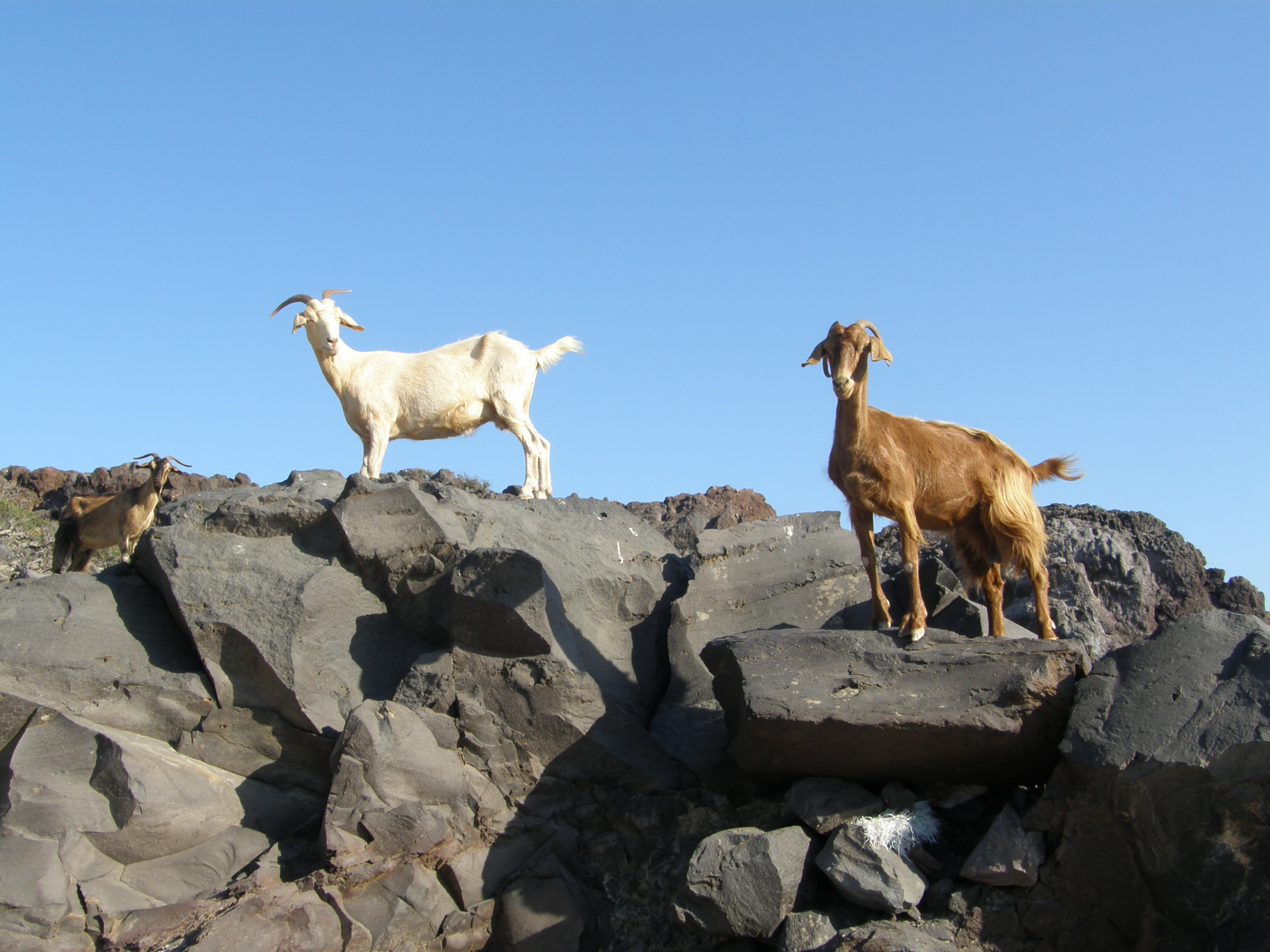 Sostis and his goats are the inhabitants of Palea Kameni island (volcanic island) in the middle of the Caldera of Santorini, Greece... Sostis and the other inhabitants of Palea Kameni...